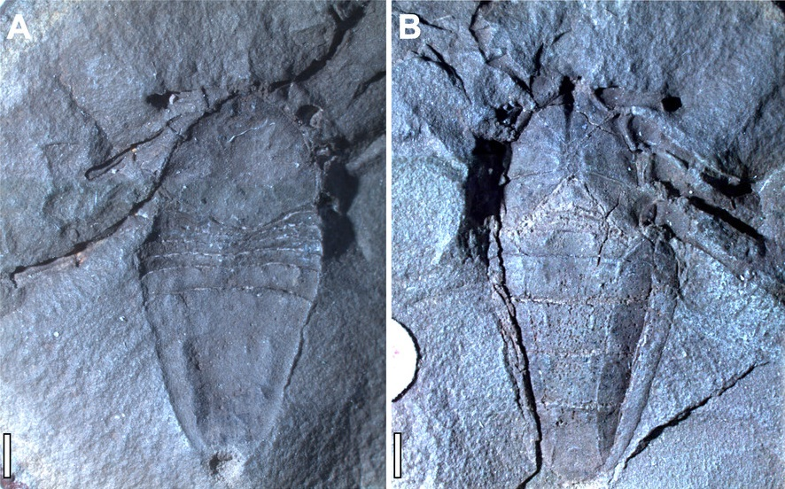 Holotype and only known specimen of phalangiotarbid Goniotarbus angulatus (NHM In 22838). (A) Dorsal view, showing prosoma and opisthosoma, and legs 4L and 2L. Proximal portions of Leg 1L are visible at the anterior of the fossil, as are the trochanters of several of the legs on the right. (B) Ventral view showing coxo-sternal arrangement and ventral opisthosomal segmentation. Proximal portions of Leg 1L, then 2L 3L and 4L are visible. Scale bars: (A, B) = 2 mm.